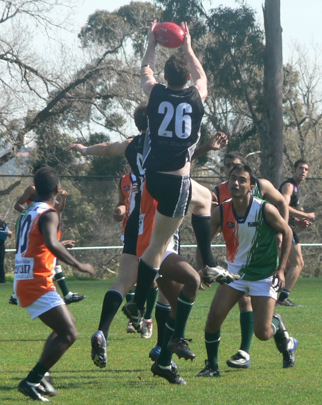 New Zealand's Richard Bradley takes a high mark over an Indian opponent in the 2008 International Cup.